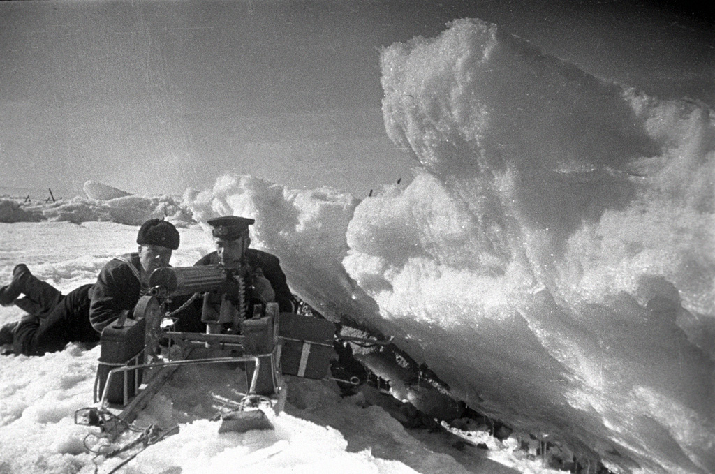 “Sea defense of Leningrad”. Two Soviet machine-gunners in ambush in ice-hummocks of the Gulf of Finland.